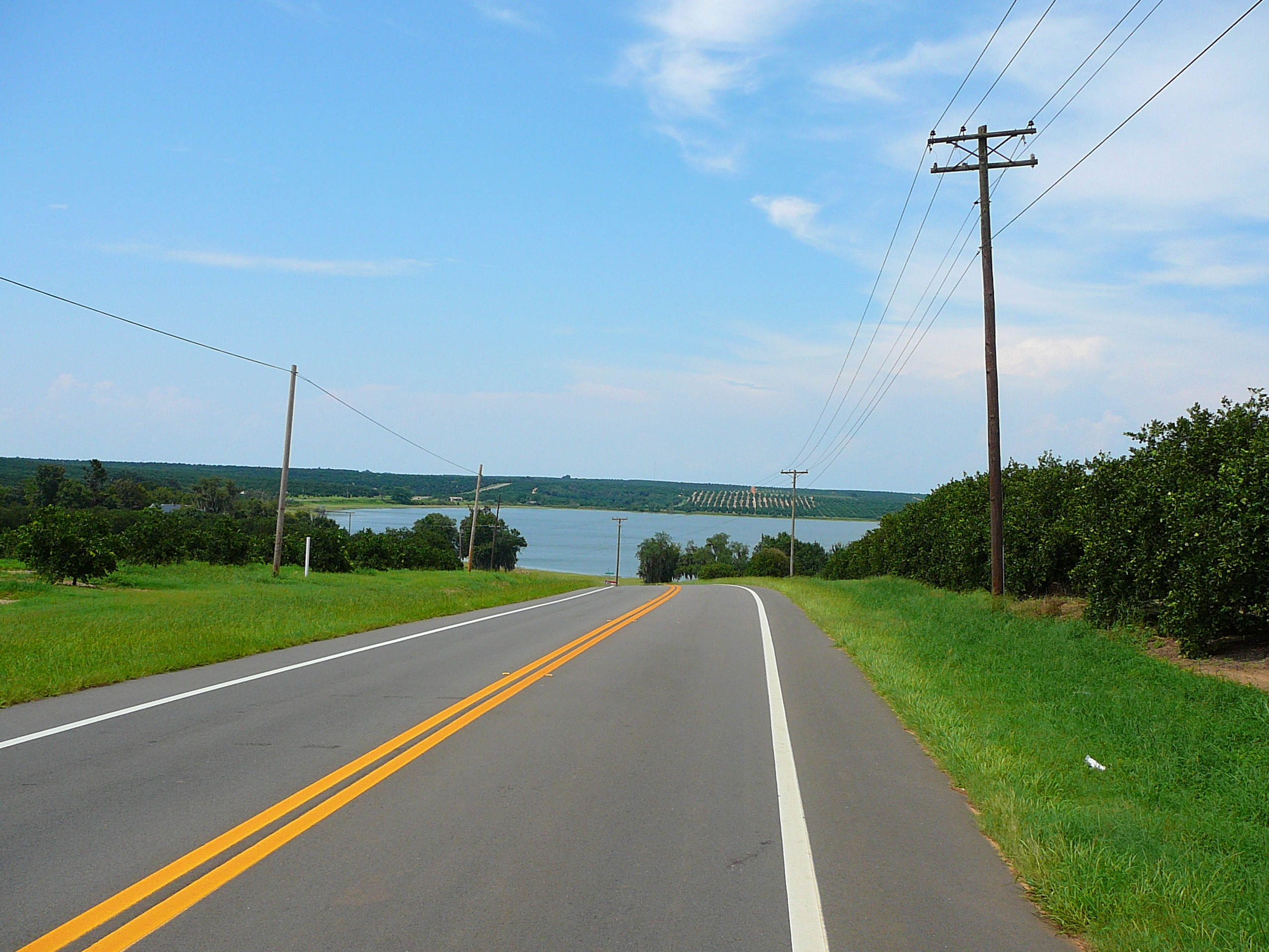 Digital photo taken by Marc Averette. Scenic northbound vista from Florida State Road 17 between Frostproof, Florida and Hillcrest Heights, Florida